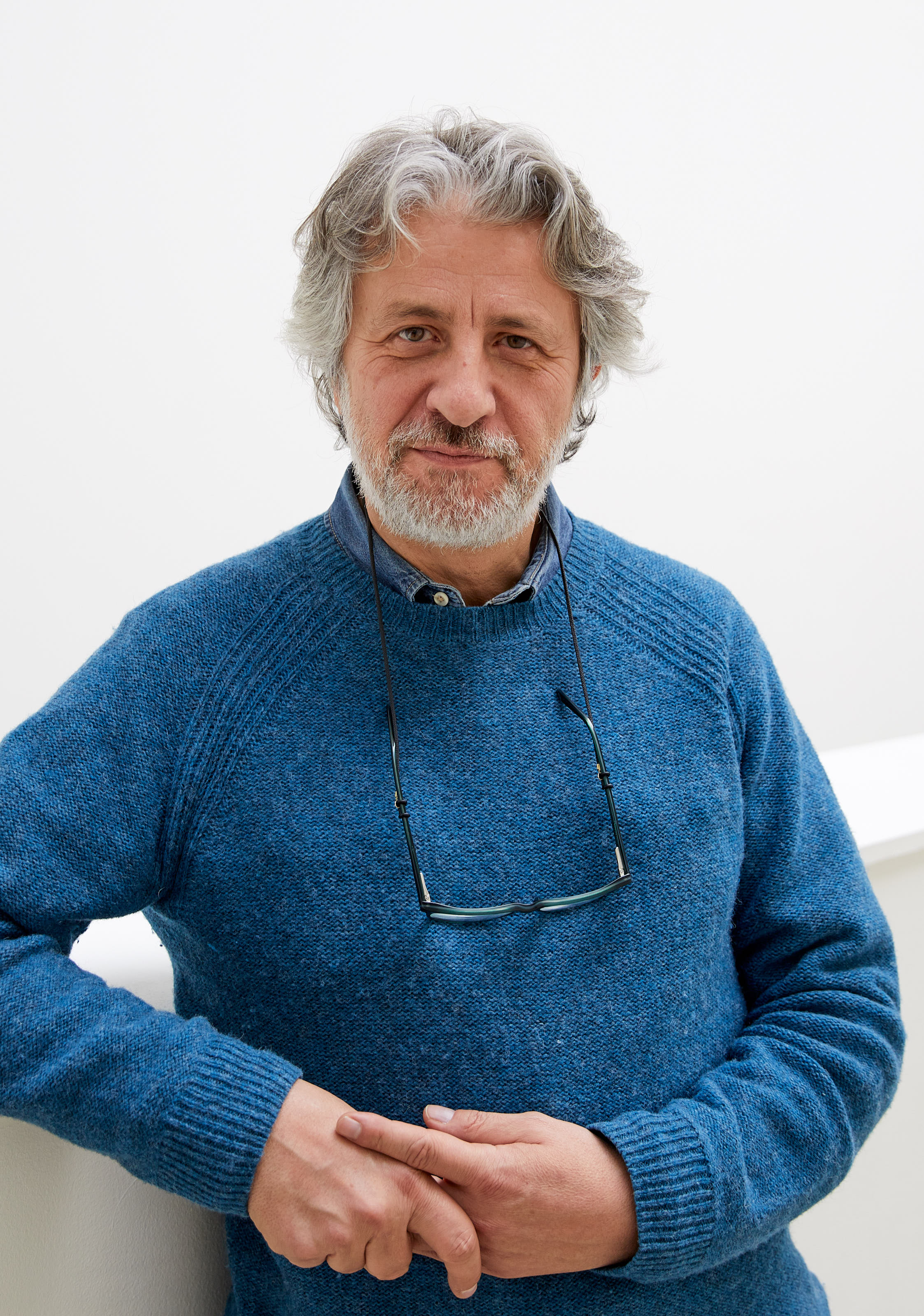 Spanish comics creator Bartolomé Segui was one of the international guests at the Stockholm International Comics Festival in February 2019.